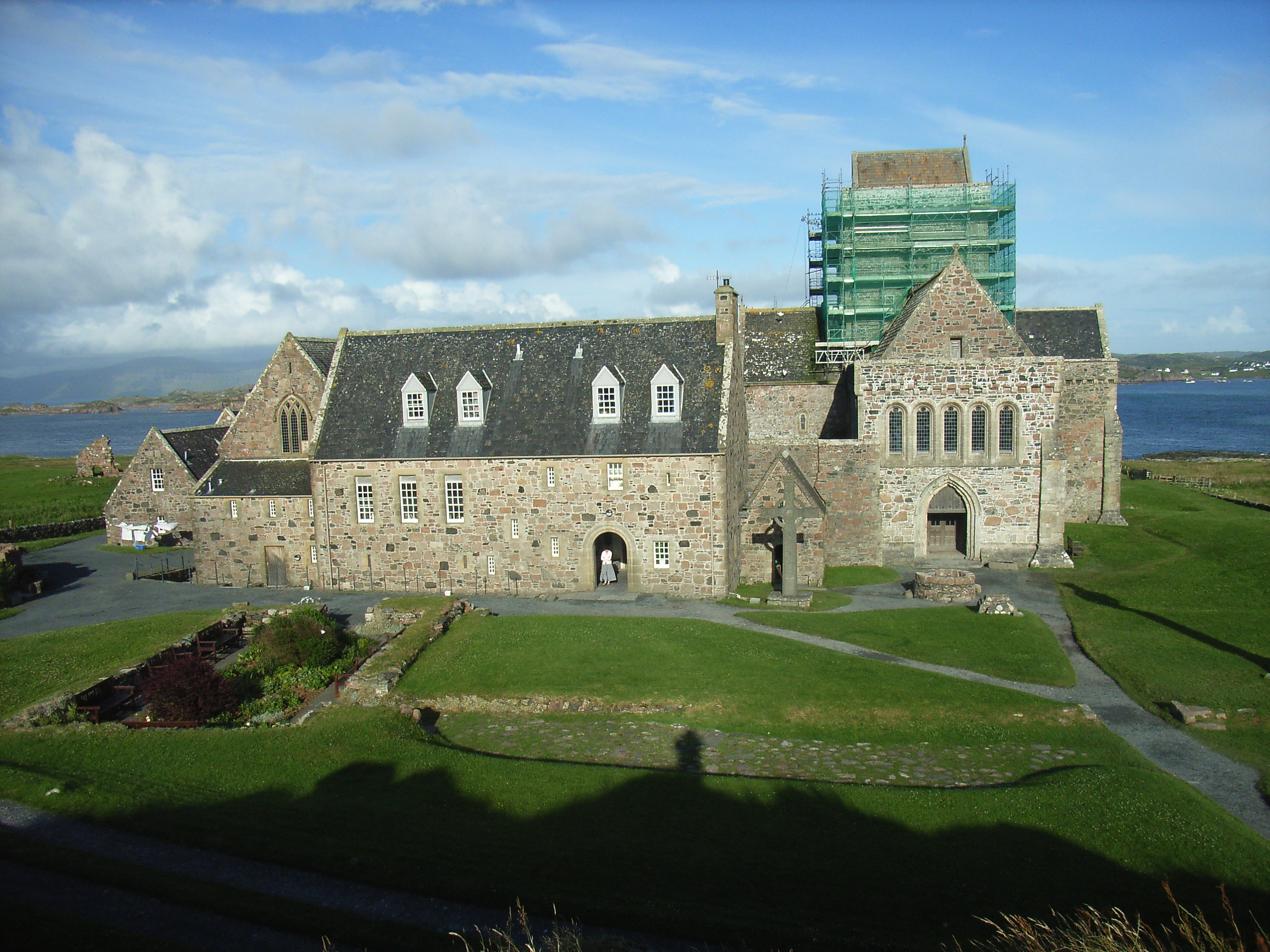 Iona Abbey from Tor Ab